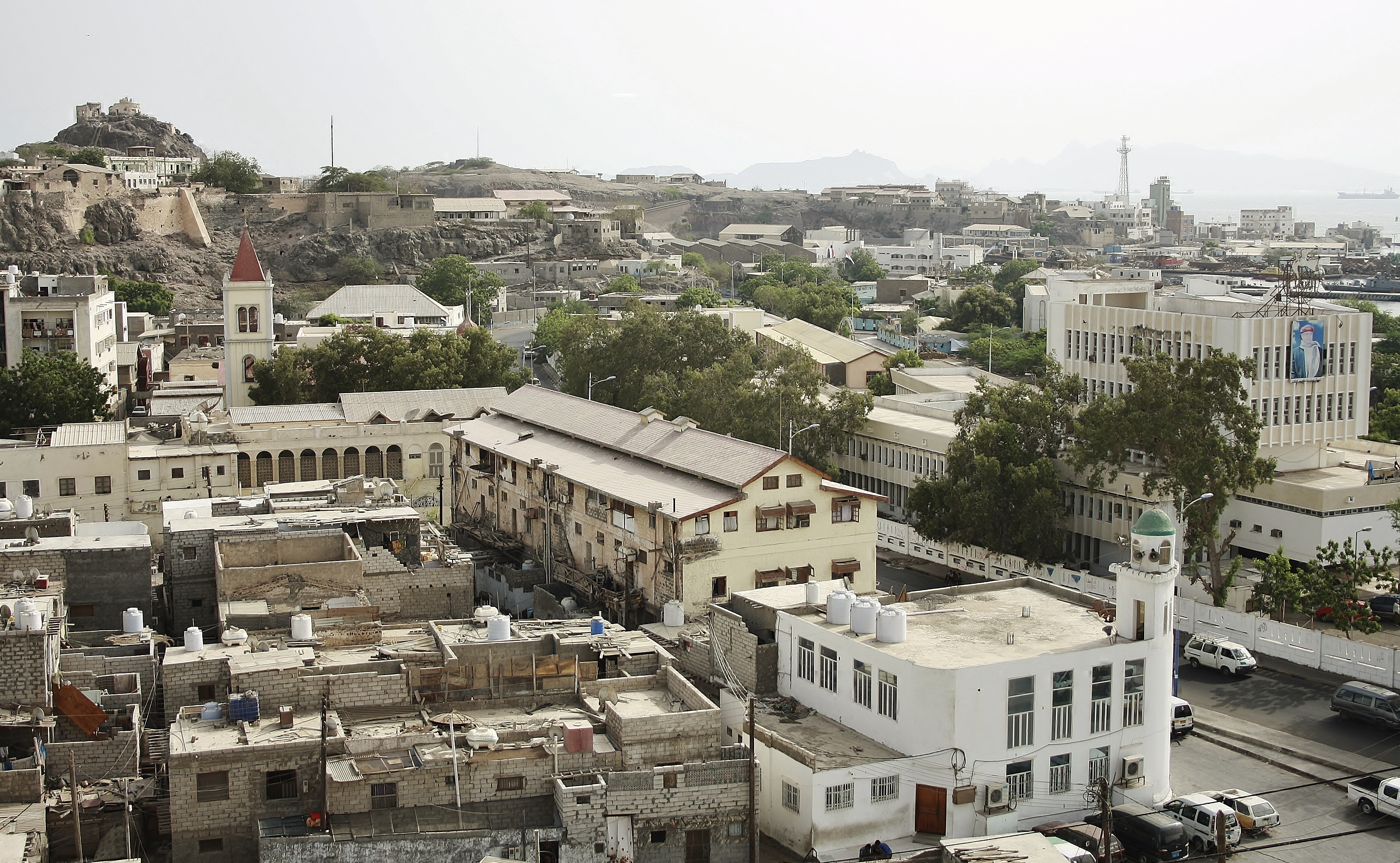 St Francis Church and school. Compare with nearly 50 years ago!